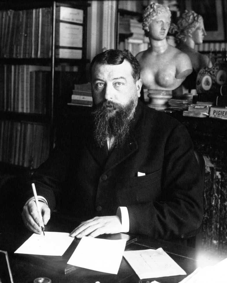 French politician Gaston Menier (1851-1934).